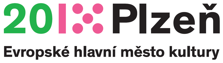 logo of The European Capital of Culture 2015